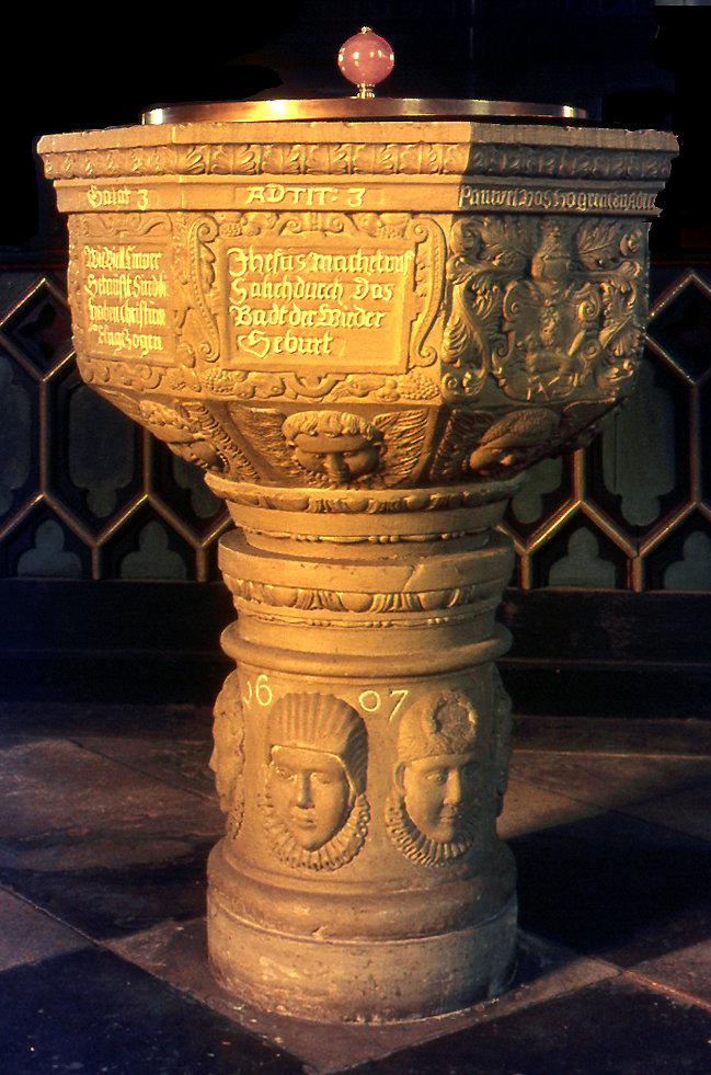 Stone baptismal font in the St. Dionysiuskirche of Adensen in Nordstemmen, district Hildesheim, Lower Saxony, Germany. The stone baptismal font is made in the year 1607.